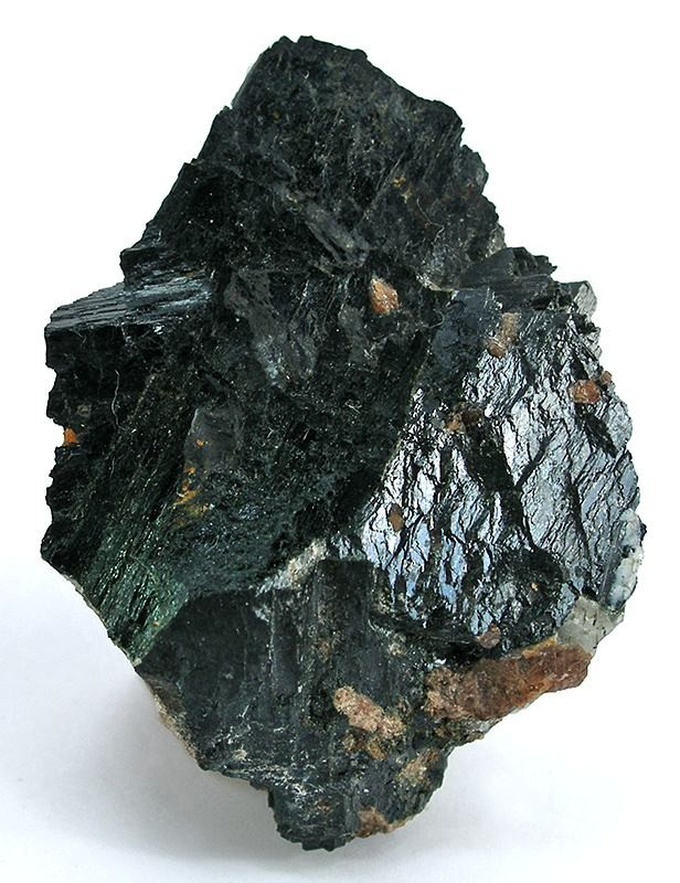 Britholite-(Ce) Locality: Tuperssuatsiat Bay, Tunugdliarfik Firth (Eriksfjord), Ilimaussaq complex, Narsaq, Kitaa (West Greenland) Province, Greenland (Locality at ) Size: 3.9 x 2.9 x 1.0 cm. A very lustrous, compound crystal of this very rare mineral from the Greenland suite. I am told that it is uncommon in such size and richness. The faces on the left and top are probably natural, with the lower-right faces being cleavage planes. This specimen was exchanged to Harvard University from the University of Copenhagen Museum collection, before being traded out to Lawrence Conklin.